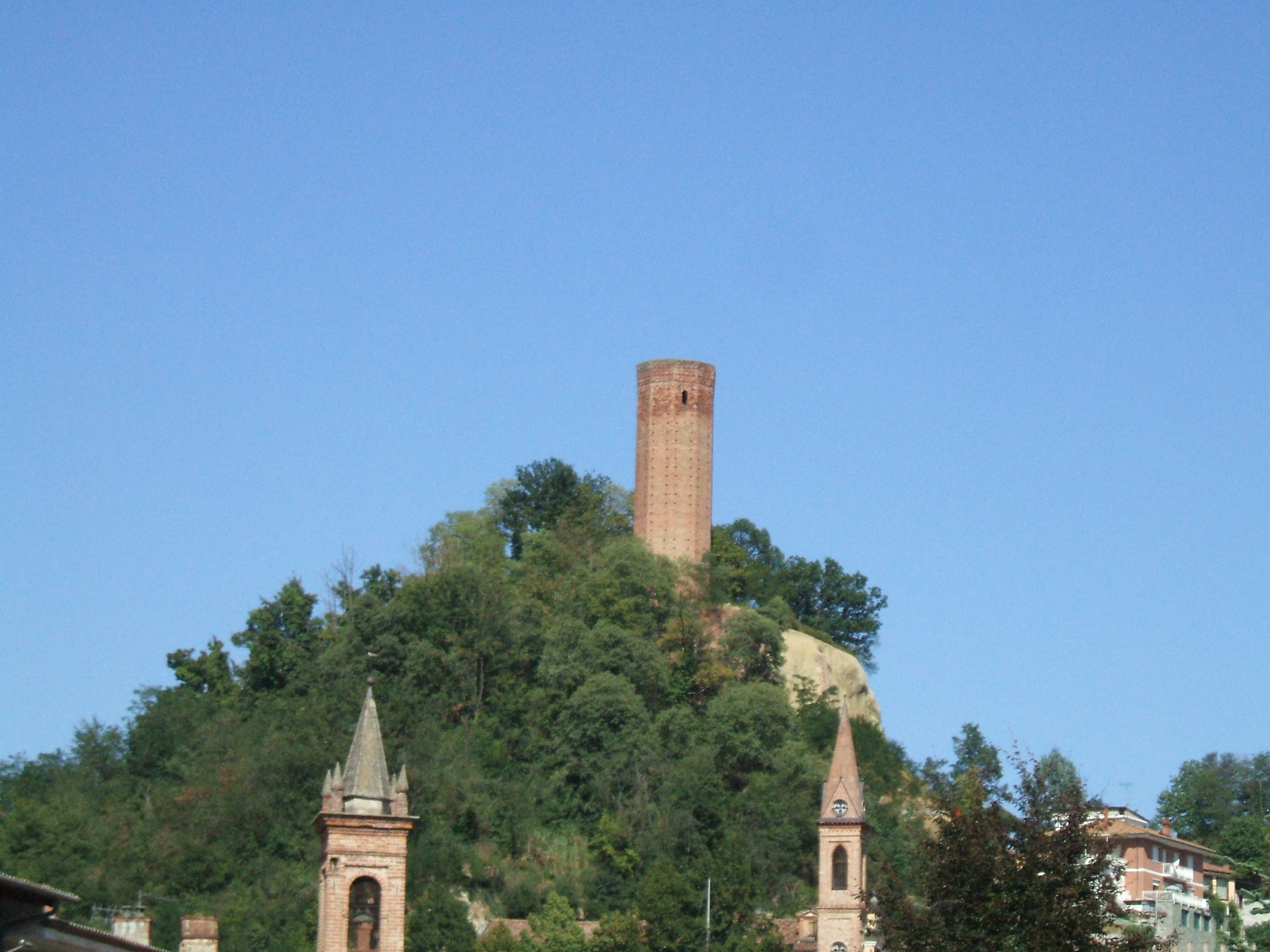 Corneliano d'Alba, Piedmont, Italy - the tower